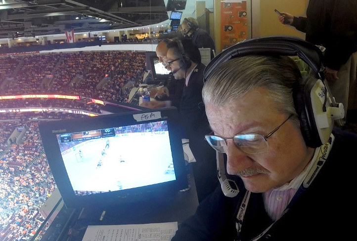 Steve Cangialosi and Ken Daneyko calling NJ Devils on MSG Network